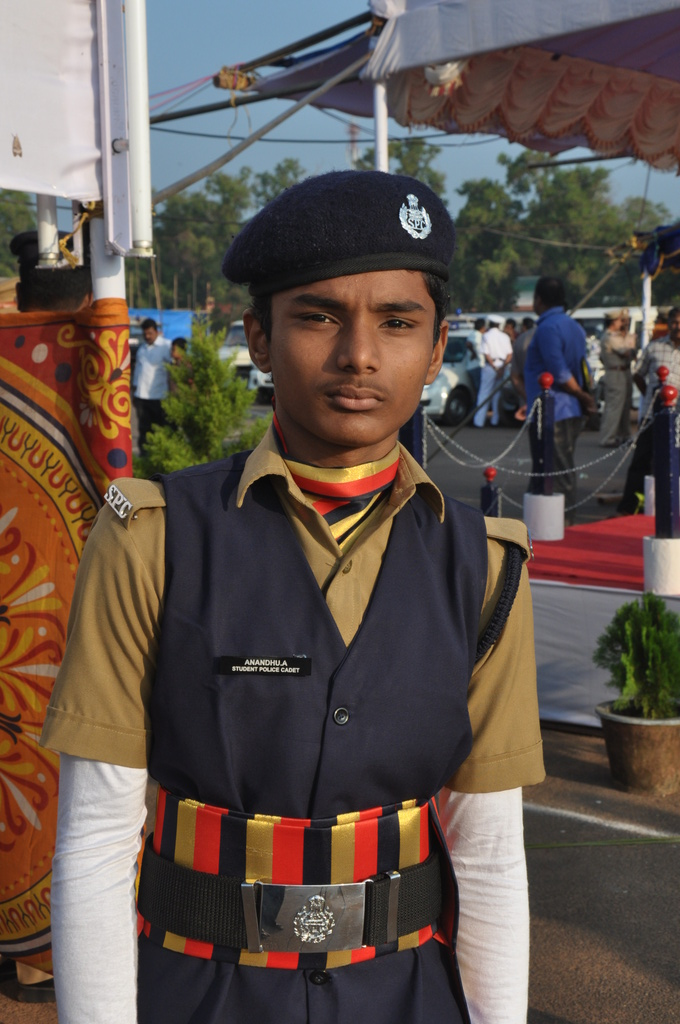 Student police cadet, Kerala